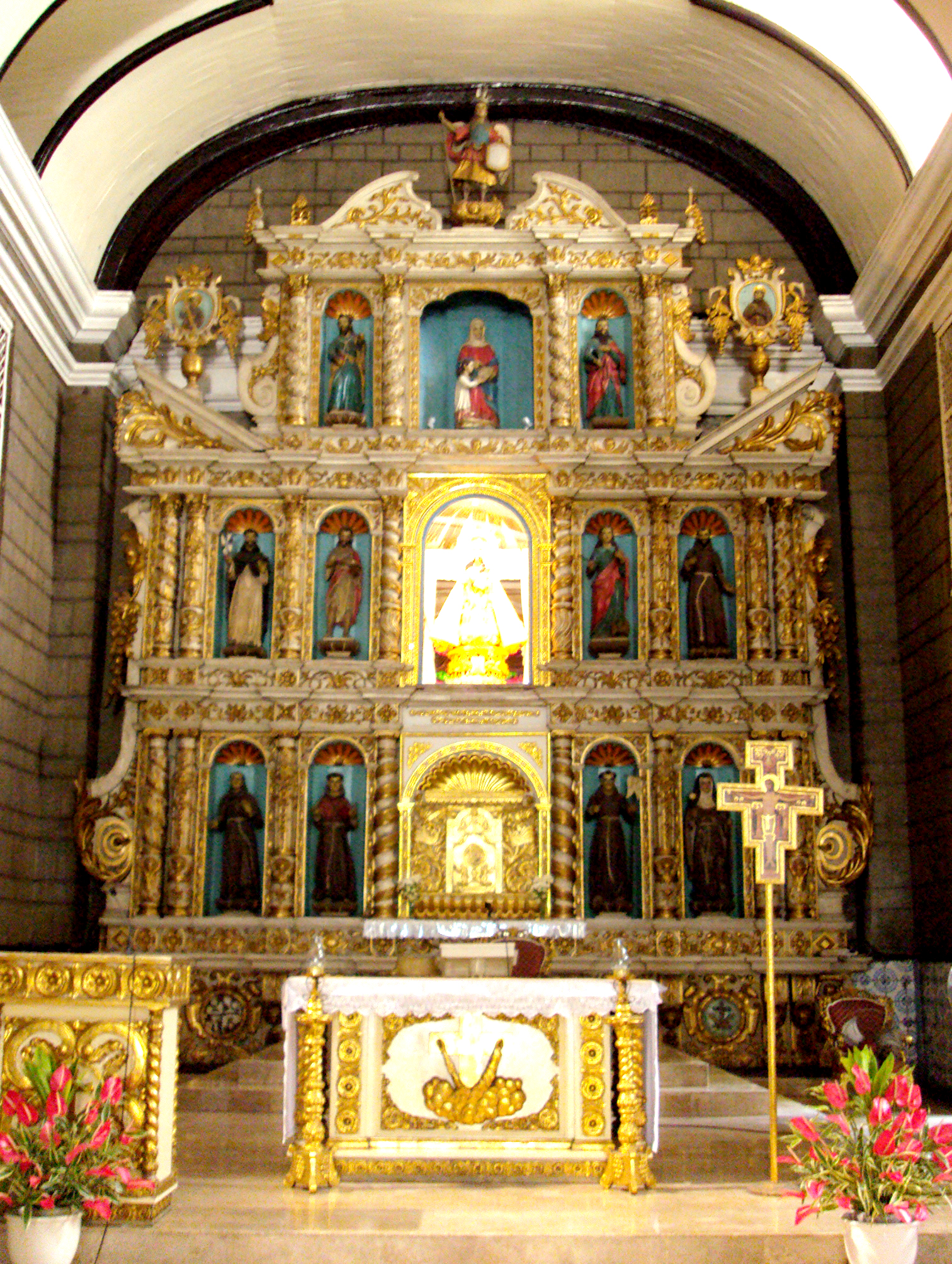 The main altarpiece or retablo mayor of Santa Ana Church in Manila